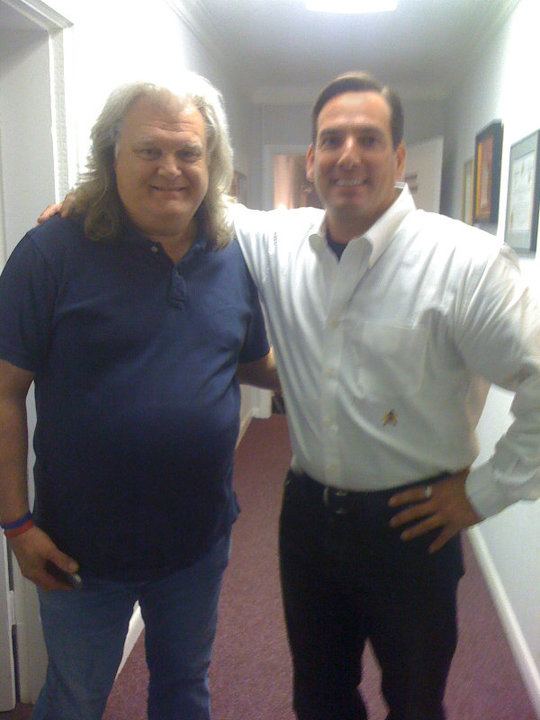 Ricky Skaggs and Tony J. Caridi discuss concert details at Skaggs' Hendersonville, Tennessee studio/offices August, 2010.